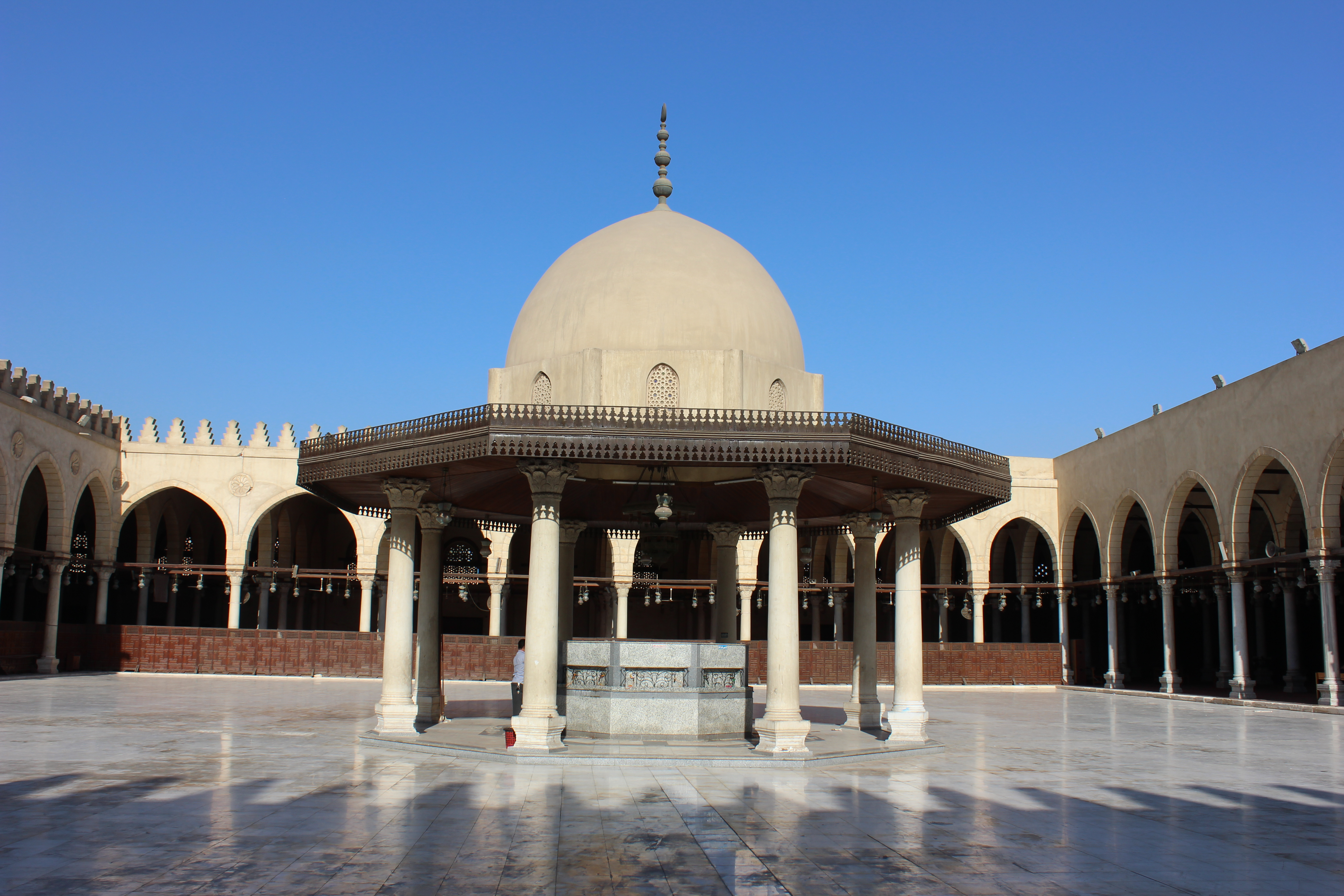 Ablution Basin in Mosque of Amr Ibn al-As, Cairo.